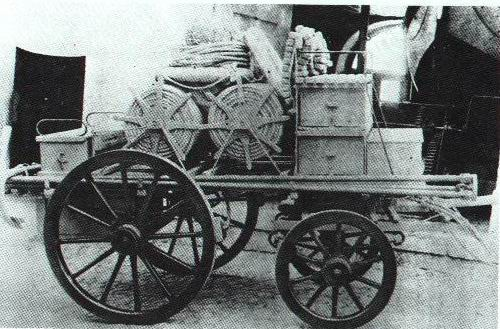 AHBVPA-MeioHistorico3